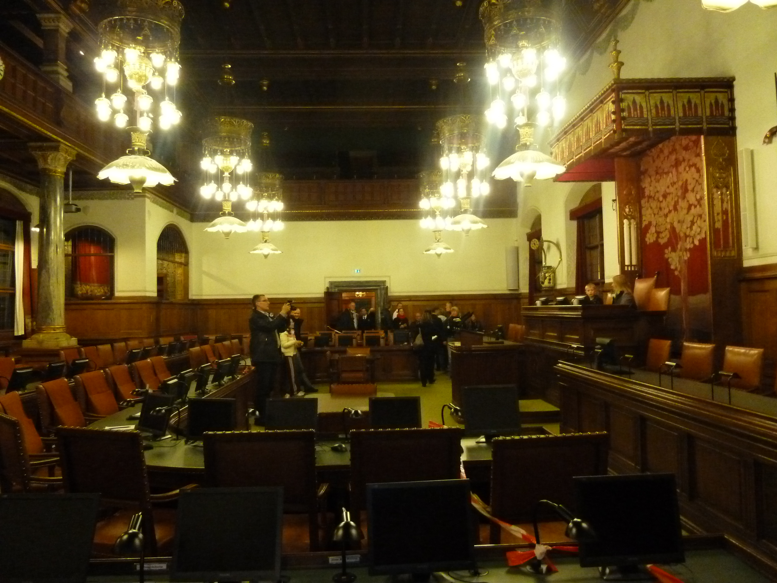 Københavns Borgerrepræsentation (City council of Copenhagen) in the town hall at Kulturnatten (the night of culture).